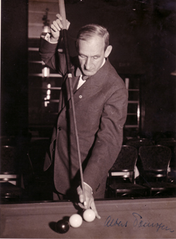 German carom billiards player